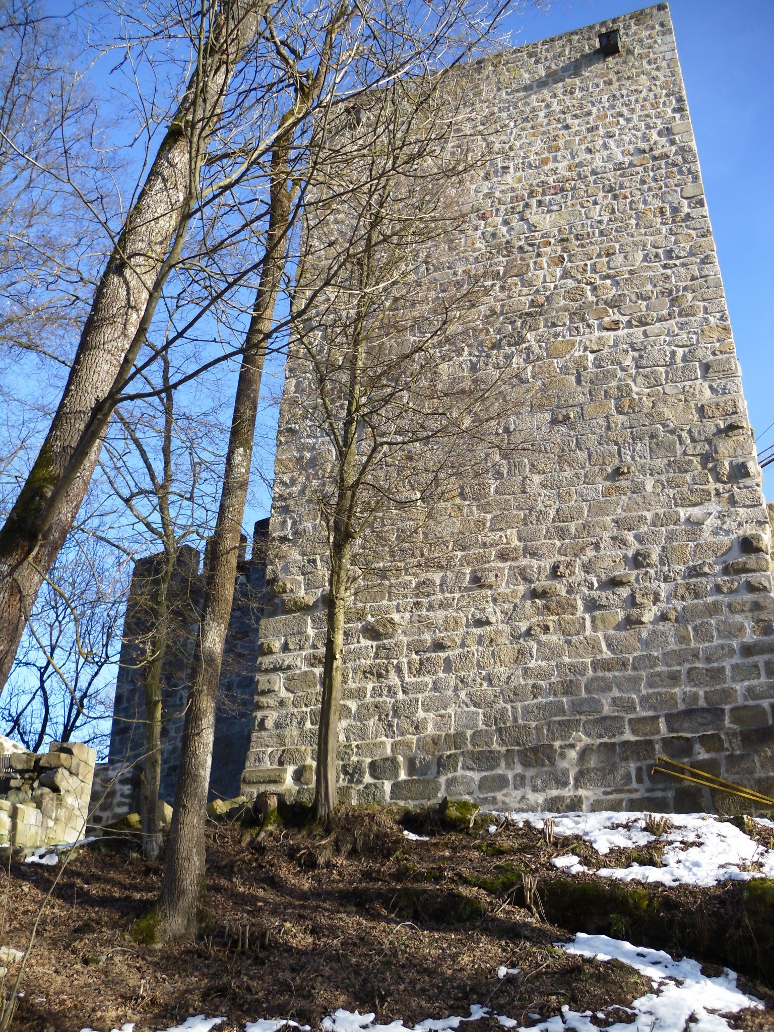 Restored donjon of ruin Windegg